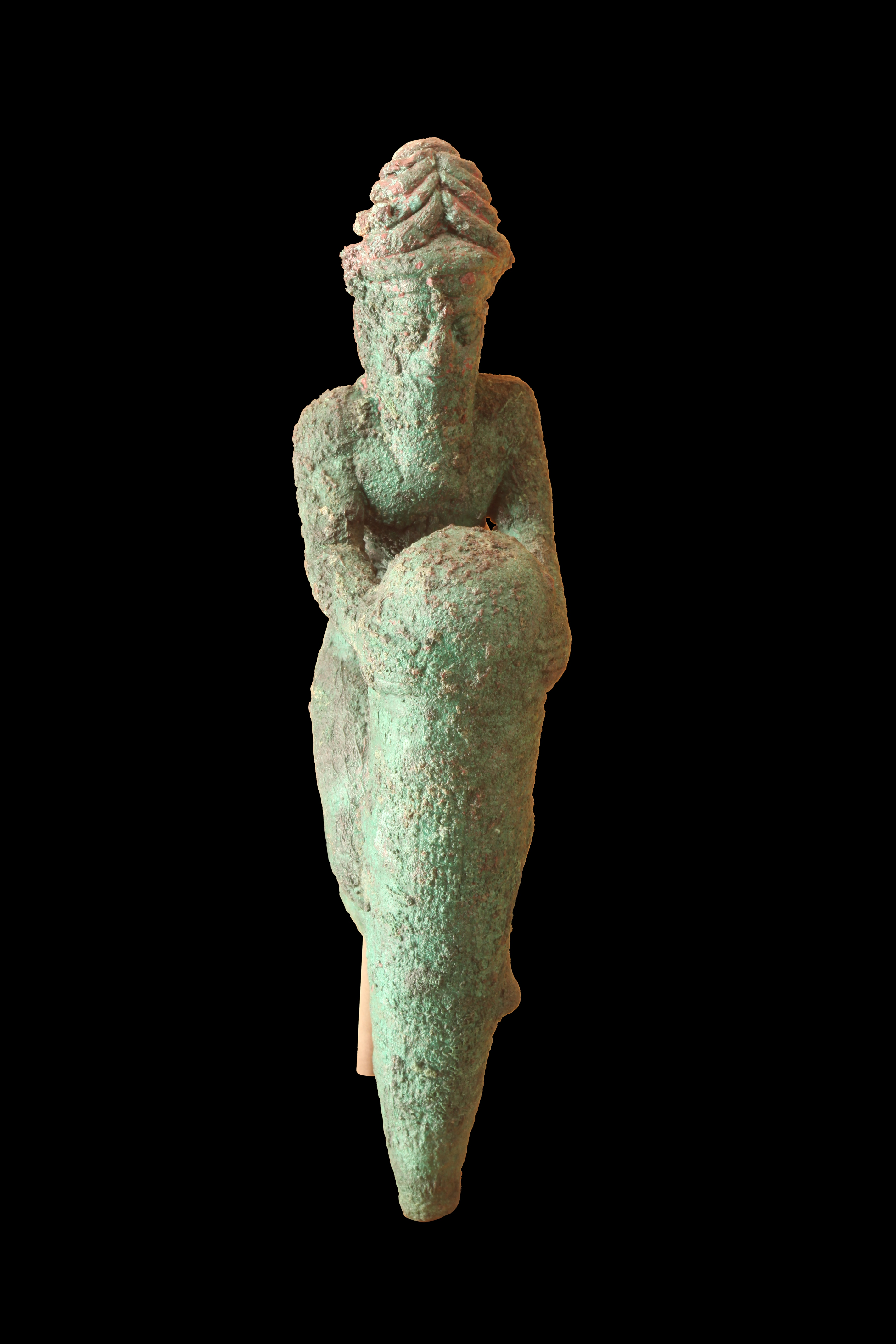 Foundation figurine featuring a god kneeling and setting a nail, with remains of a dedication by Gudea to Ningirsu.